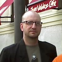 Steven Soderbergh in Madrid. Cropped from original on Flickr, colours adjusted.